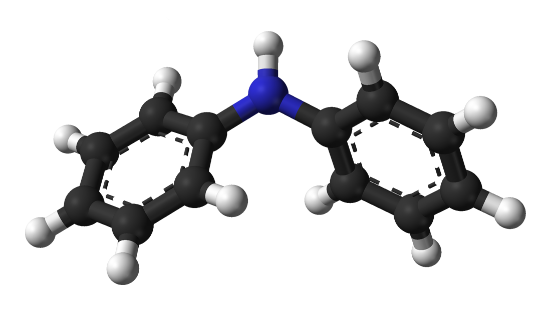 Ball and stick model of the diphenylamine molecule.